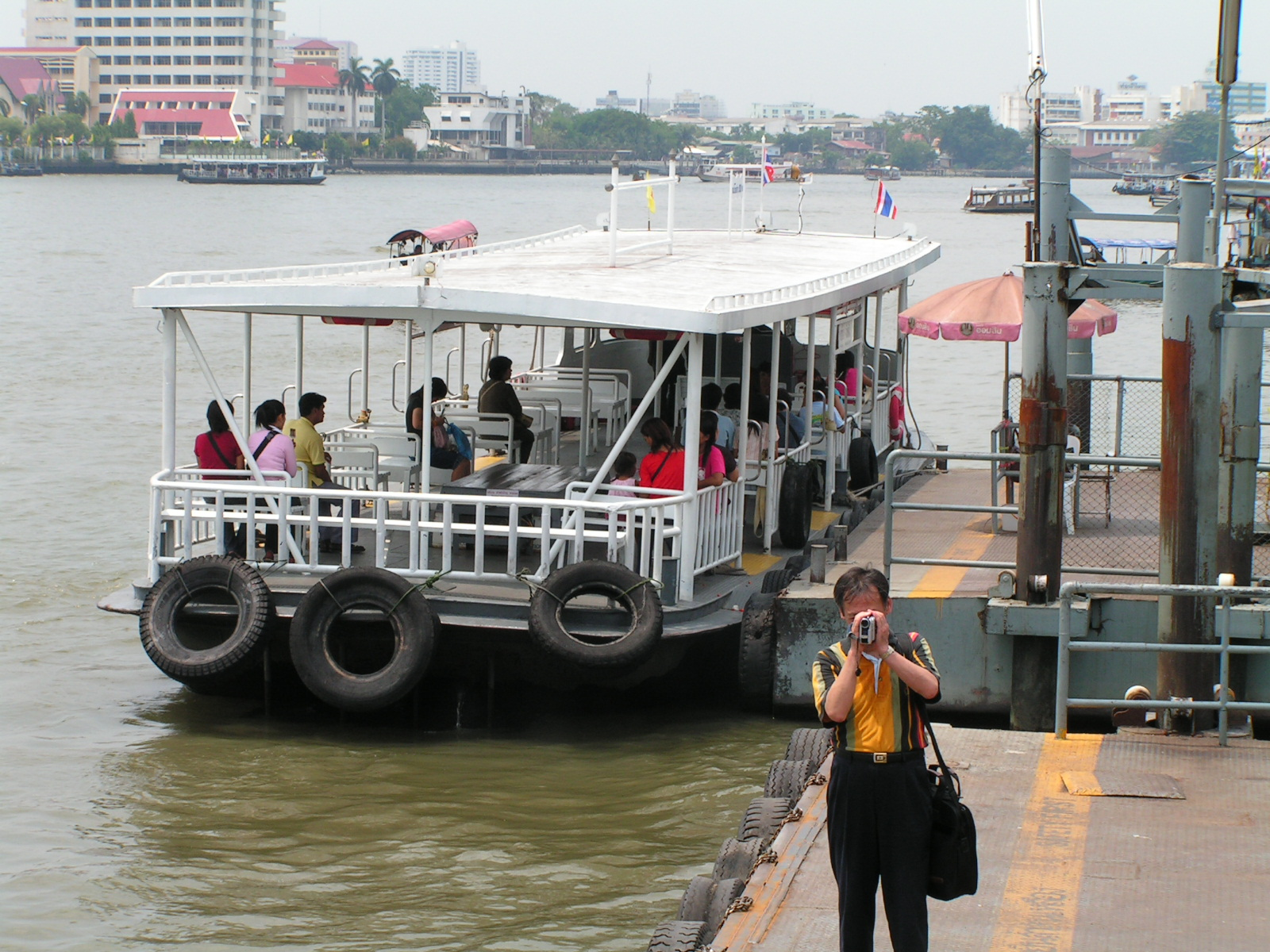 Chao Phraya ferry, Bangkok.